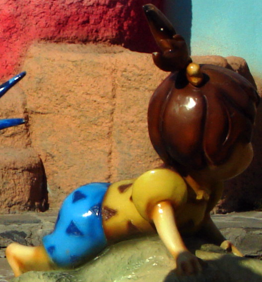 Pebbles Flintstone figurine at the Ankara Public Amusement Park losslessly cropped from original File:Harikalar_Diyari_Flintstones_06029_nevit.jpg, after the The Flintstones series